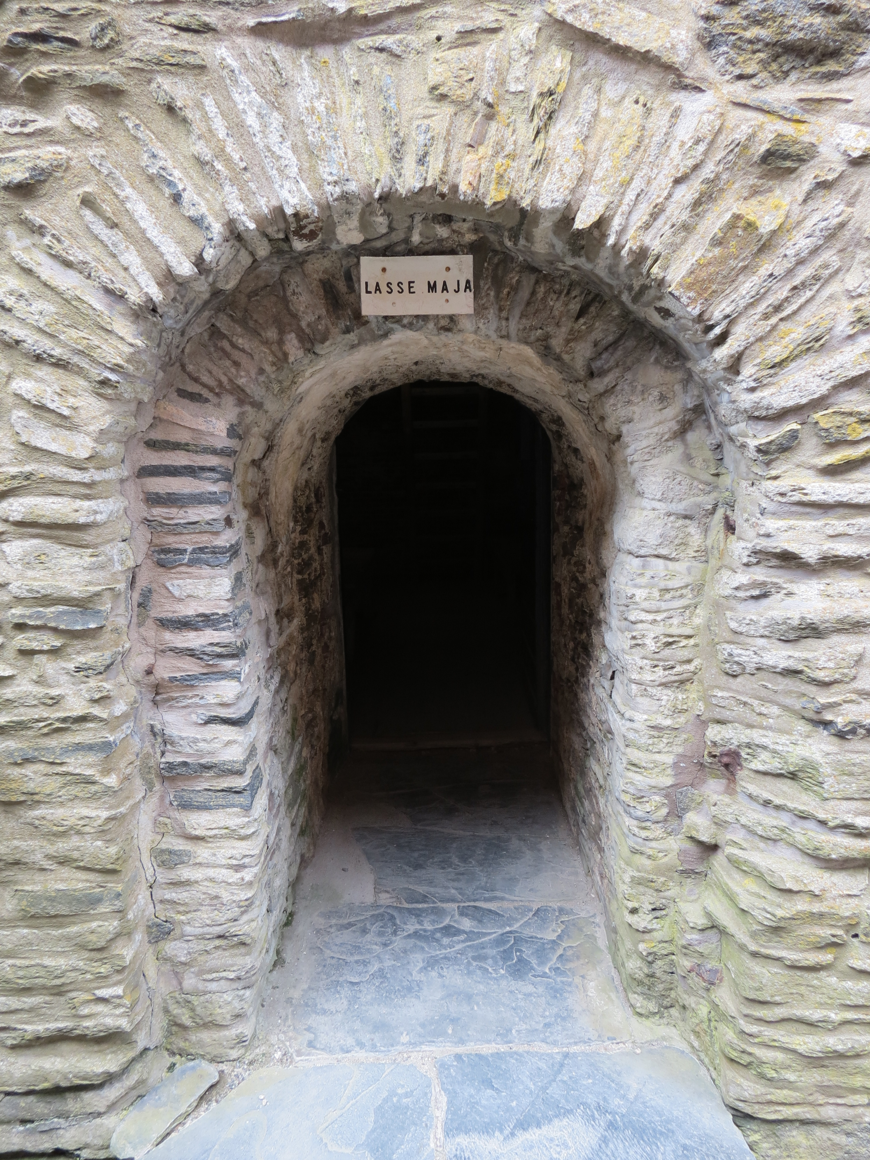 The prison cell of notorious Swedish criminal Lasse-Maja at Karlsten Fortress.